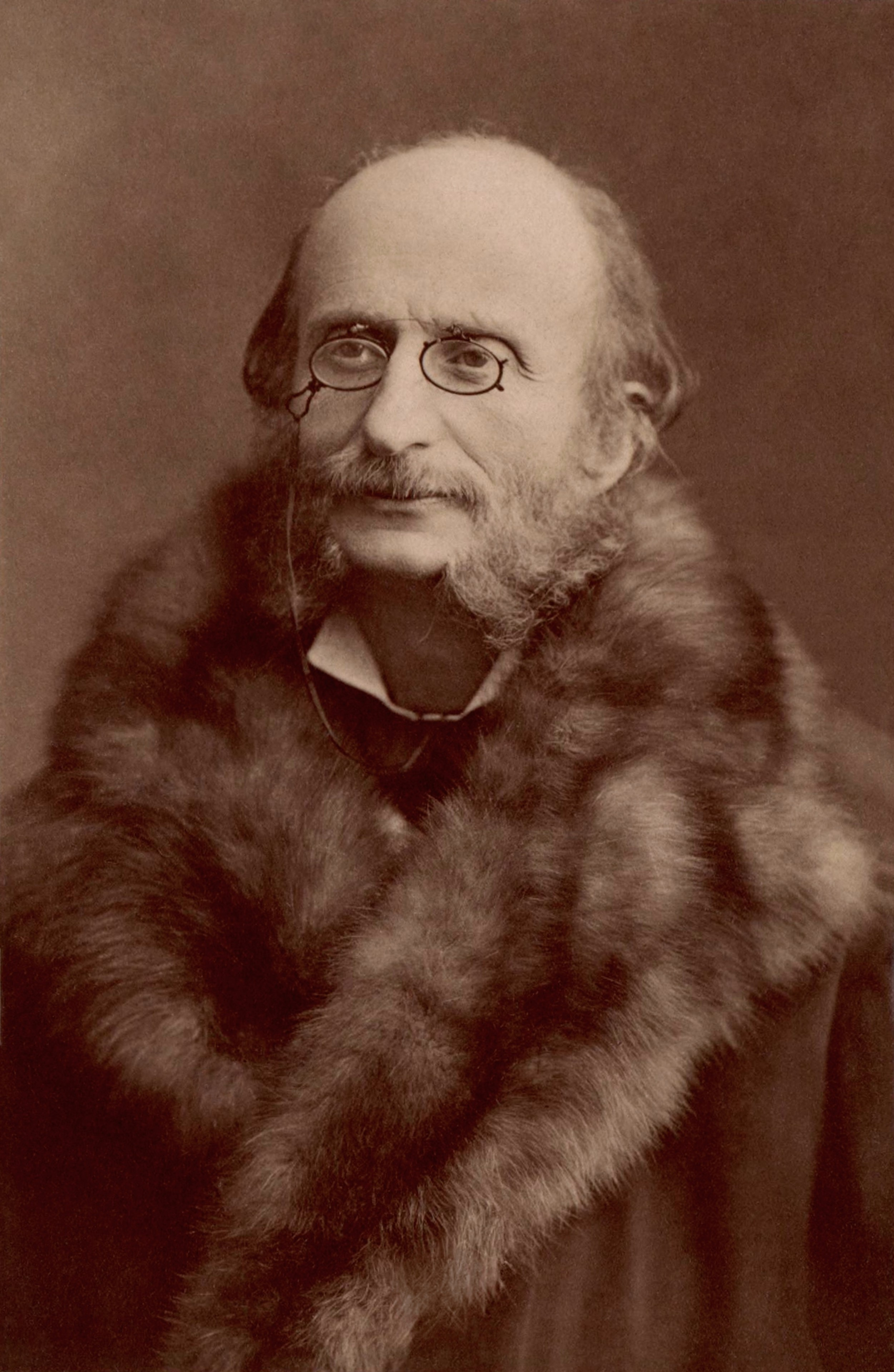 Jacques Offenbach by Nadar